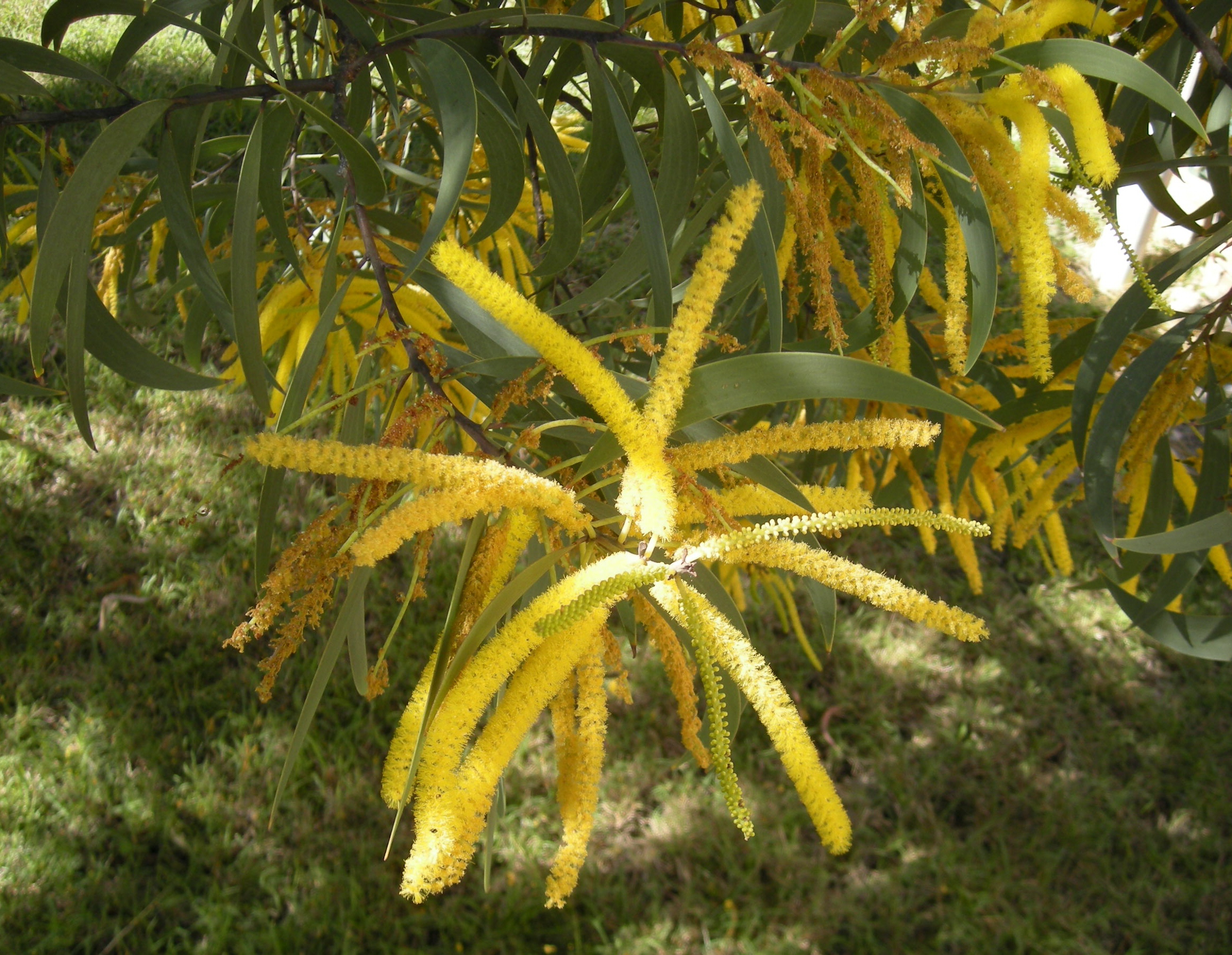 Acacia crassa foliage and flowers, Rubyvale, Queensland.